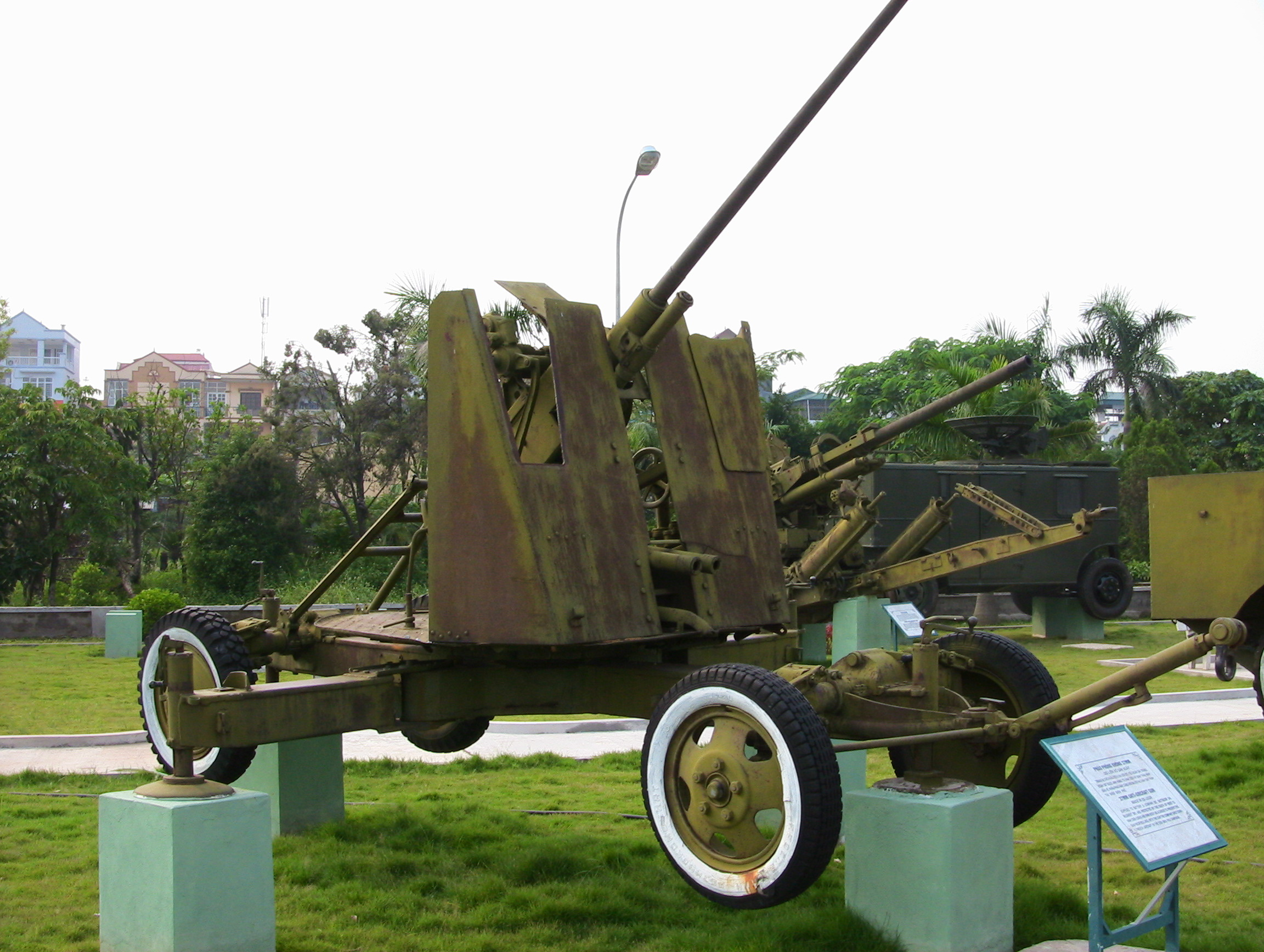 A 37 mm automatic air defense gun M1939 (61-K) used by Viet Minh during Dien Bien Phu Battle to shot down three French aircrafts.